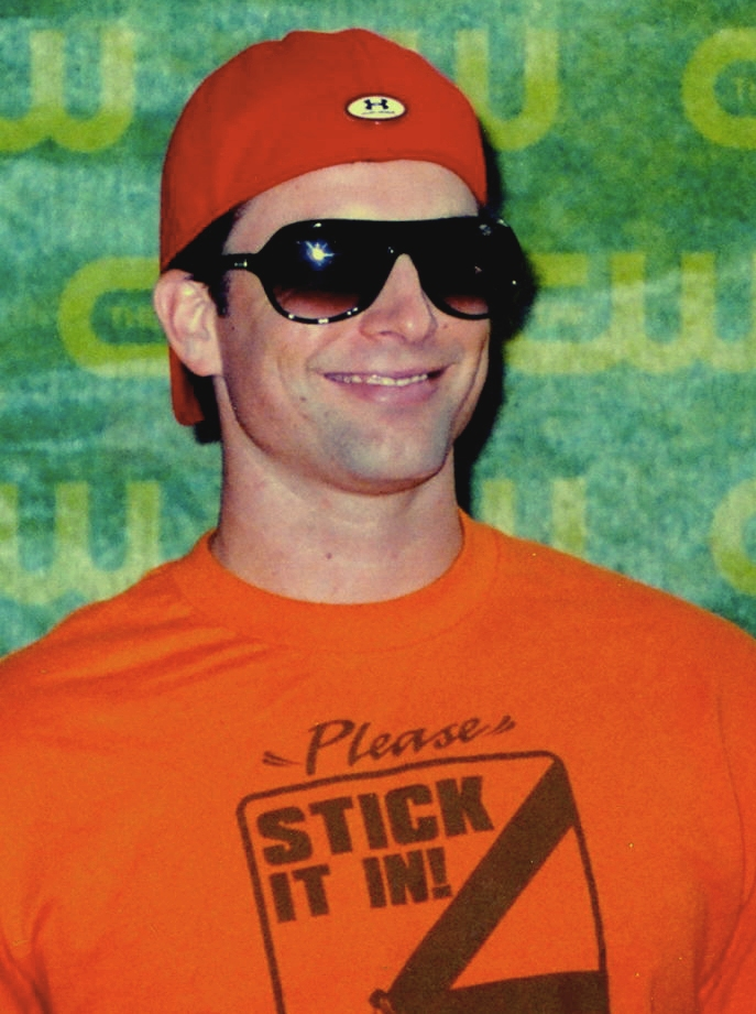 Michael Muhney in November 2006.